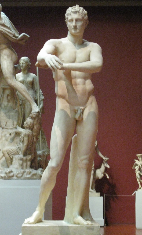 Apoxyomenos, after Lysippos. plaster cast in Pushkin Museum, Moscow